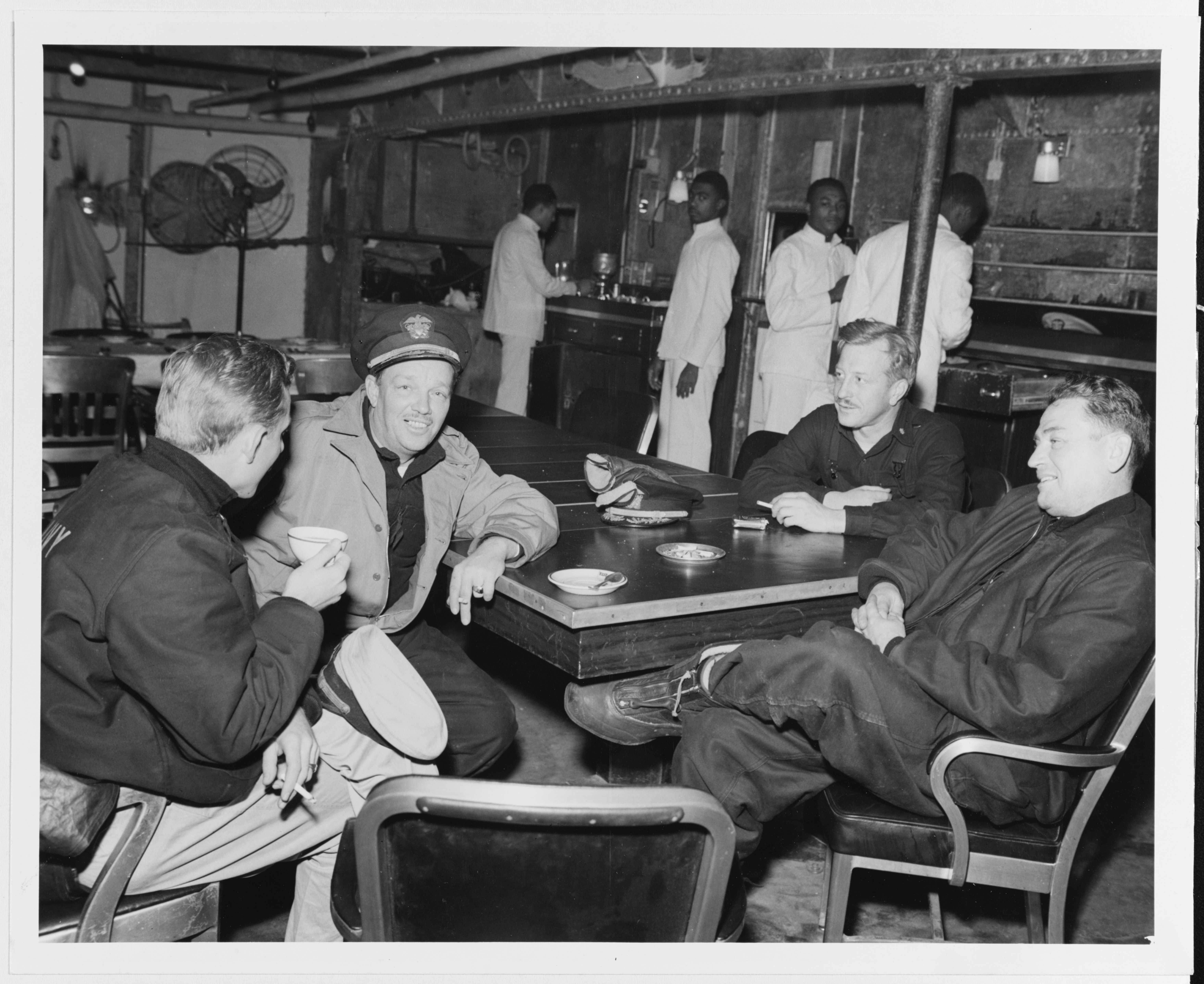 Captain Bertram J. Rodgers (right), Commanding Officer of USS SALT LAKE CITY (CA-25), his Executive Officer, and Navigator, and the Torpedo Officer of USS MONAGHAN (DD-354) relax in the cruiser's wardroom and discuss the battle, at Dutch Harbor after the action.